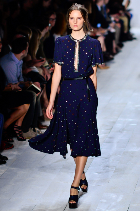 A model walks the runway at the Michael Kors Spring/Summer 2014 show at New York Fashion Week, September 2013.